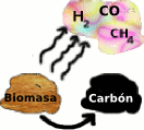 Pyrolysis. Original description: By Claus Hindsgaul. First appeared on